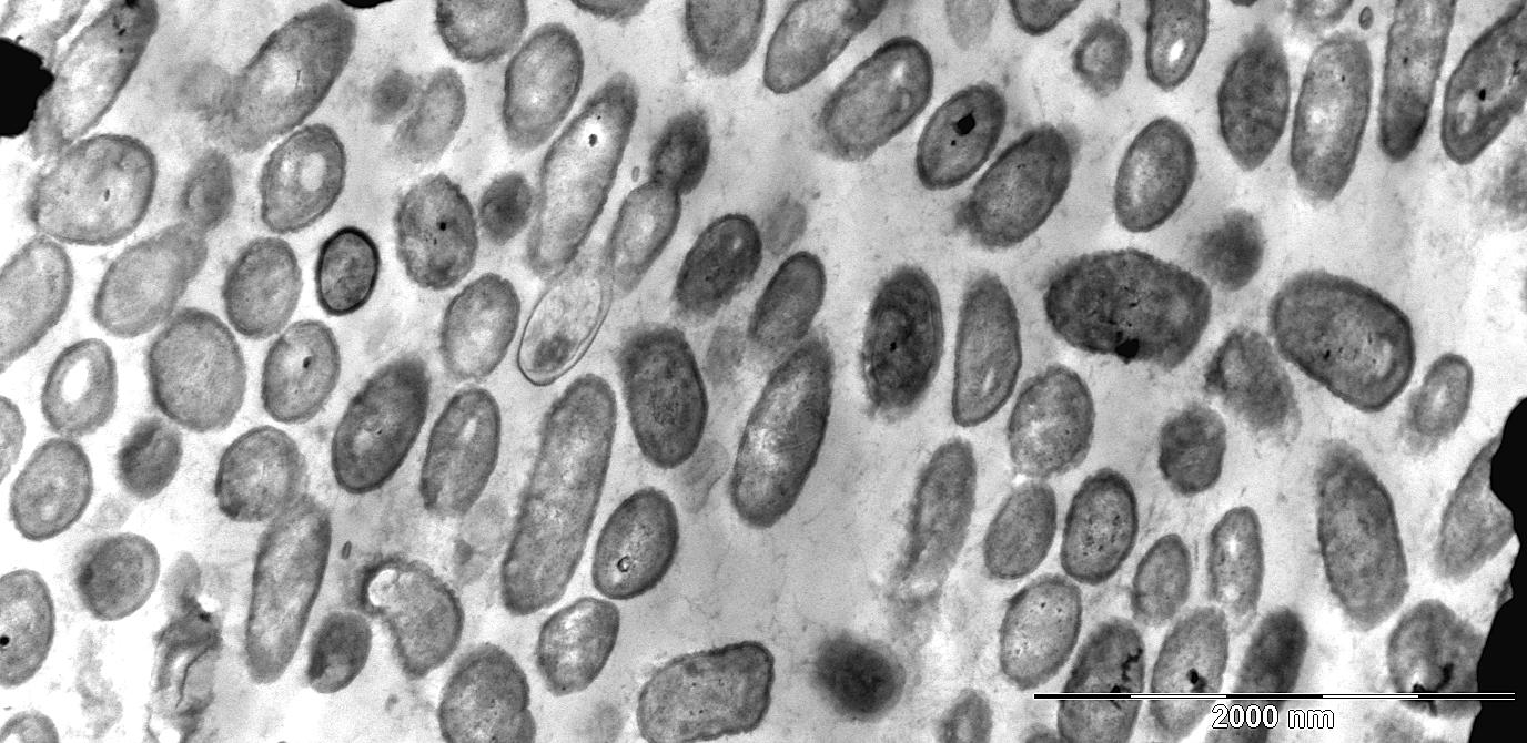 electron micrograph of Snodgrassella alvi